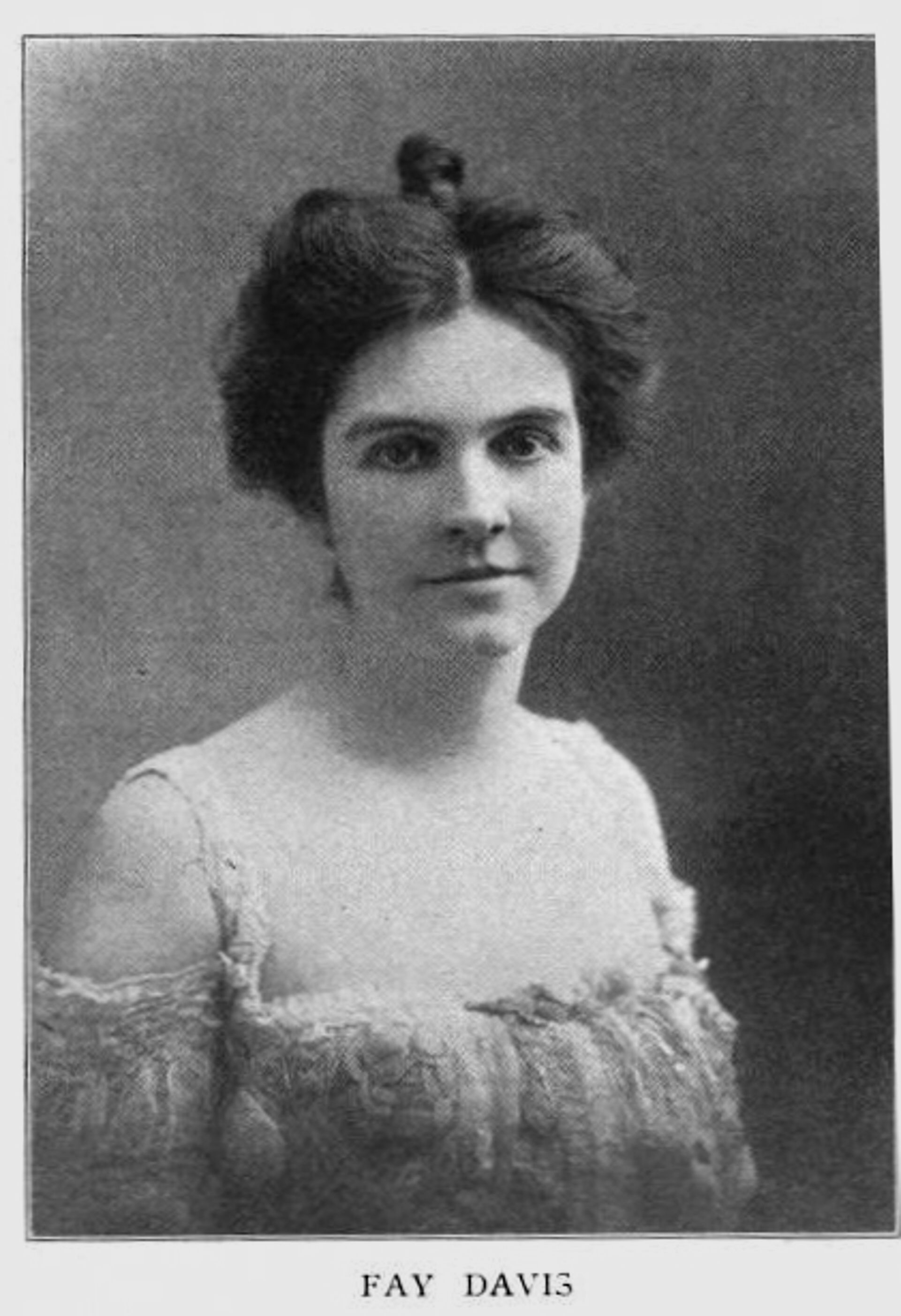 Boston, Massachusetts who was a star of many Shakespearean plays.